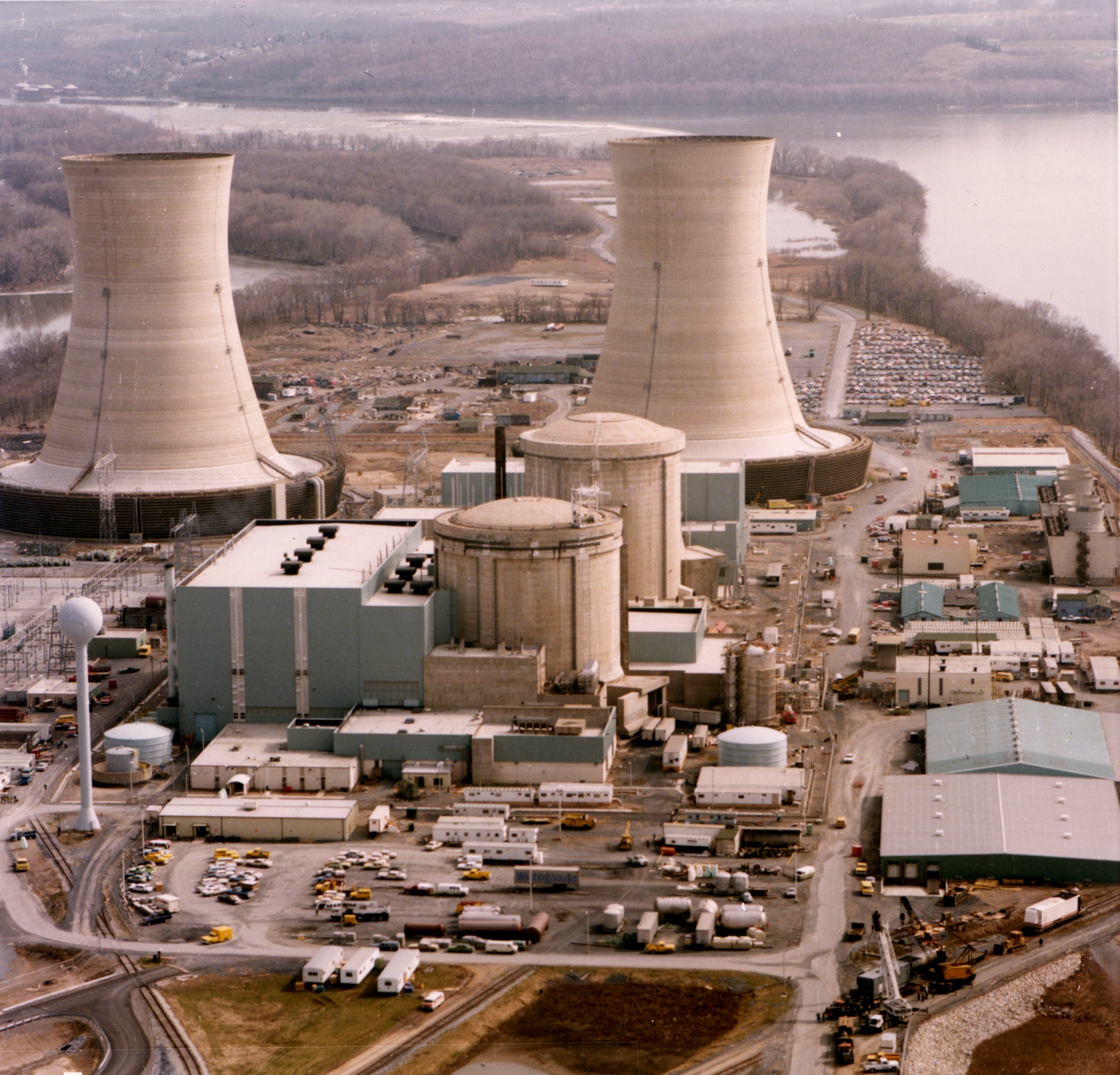 Color photograph of the Three Mile Island nuclear generating station, which suffered a partial meltdown in 1979. The reactors are in the smaller domes with rounded tops (the large smokestacks are just cooling towers).